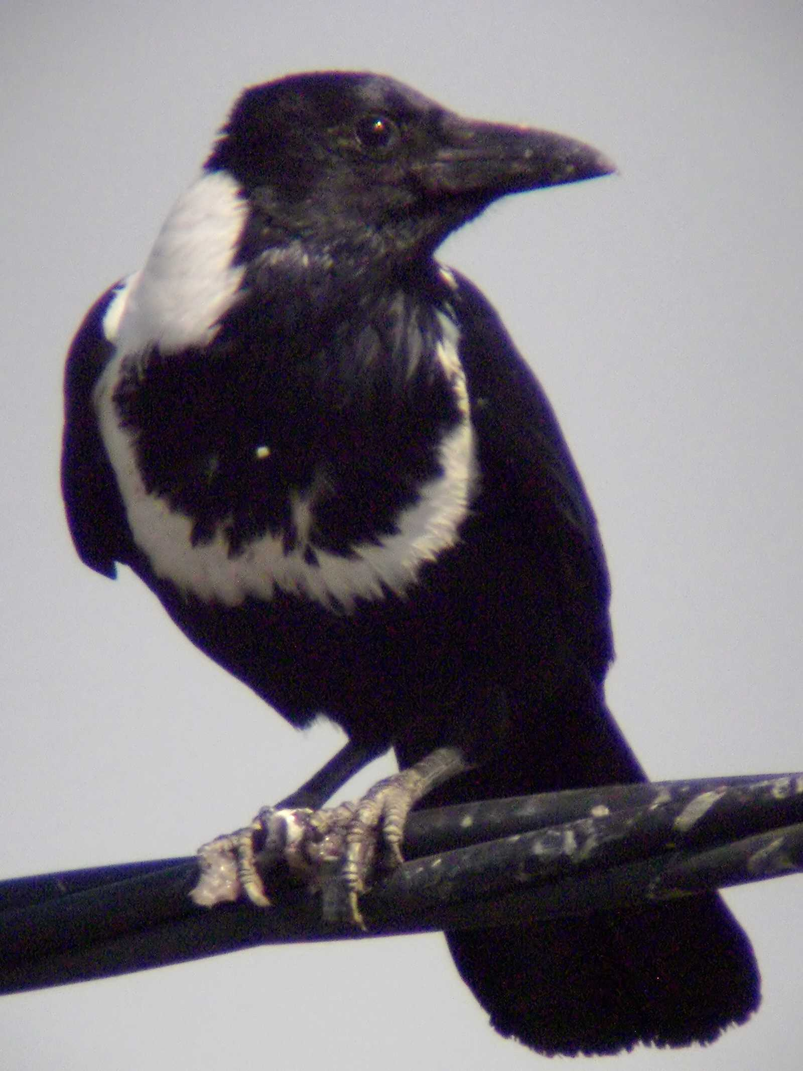 Collared Crow Corvus pectoralis, Hong Kong.